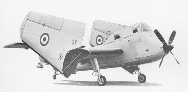 Short Seamew. Scanned in from the manufacturer's promotional brochure